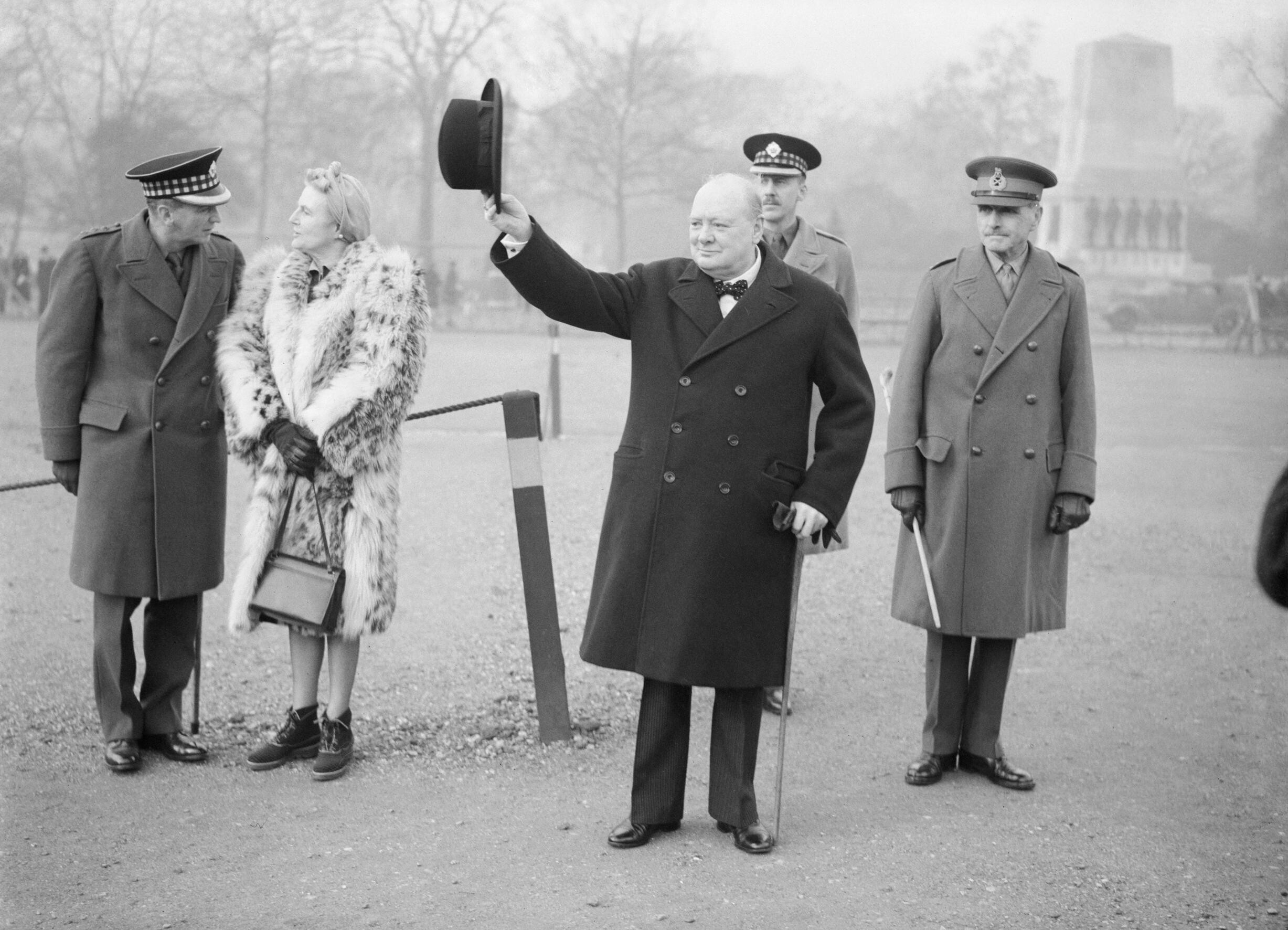 Winston Churchill raises his hat in salute during an inspection of the 1st American Squadron of the Home Guard at Horse Guards Parade in London, 9 January 1941. Winston Churchill raises his hat in salute during an inspection of the 1st American Squadron of the Home Guard at Horse Guards Parade in London, 9 January 1941. Behind, Mrs Churchill chats to a Guards officer. Lieutenant General Sir Bertram N Sergison-Brooke (GOC London Area) is standing on the right.